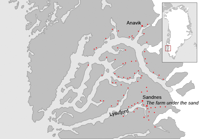 Map of the Western settlement of the Norse in medieval Greenland. The area is approximately the modern Municipality of Nuuk. The known farms and churches are identified on the map as some probable geographical names. The red dots indicate known farm ruins.